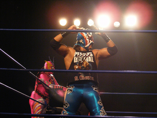 Masked Mexican wrestler el Oriental during a Chikara event